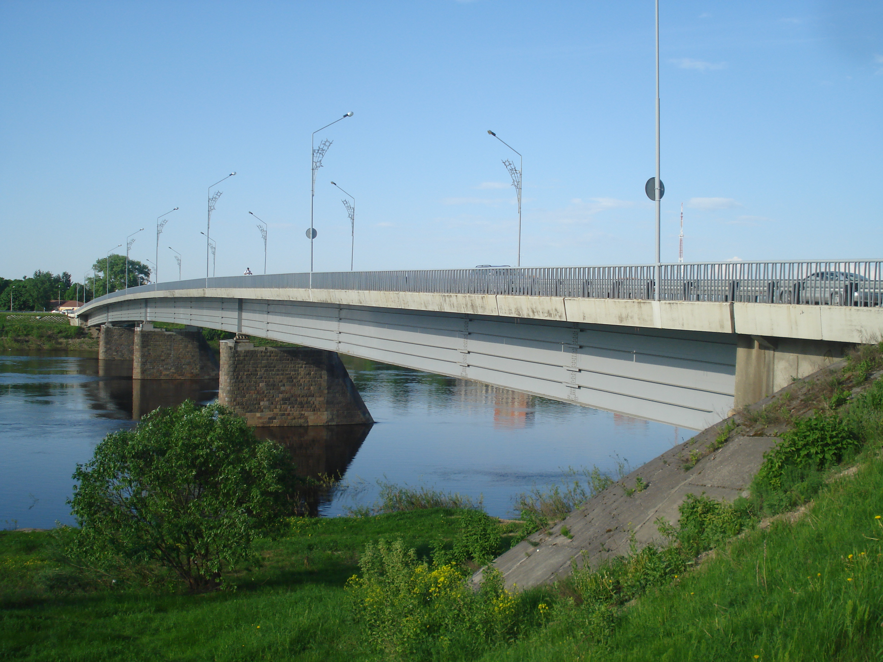 Unity bridge in Daugavpils